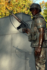 Memorial to 241 Marines, soldiers, and sailors killed in the October 23, 1983 Beirut barracks bombing, Beirut, Lebanon.